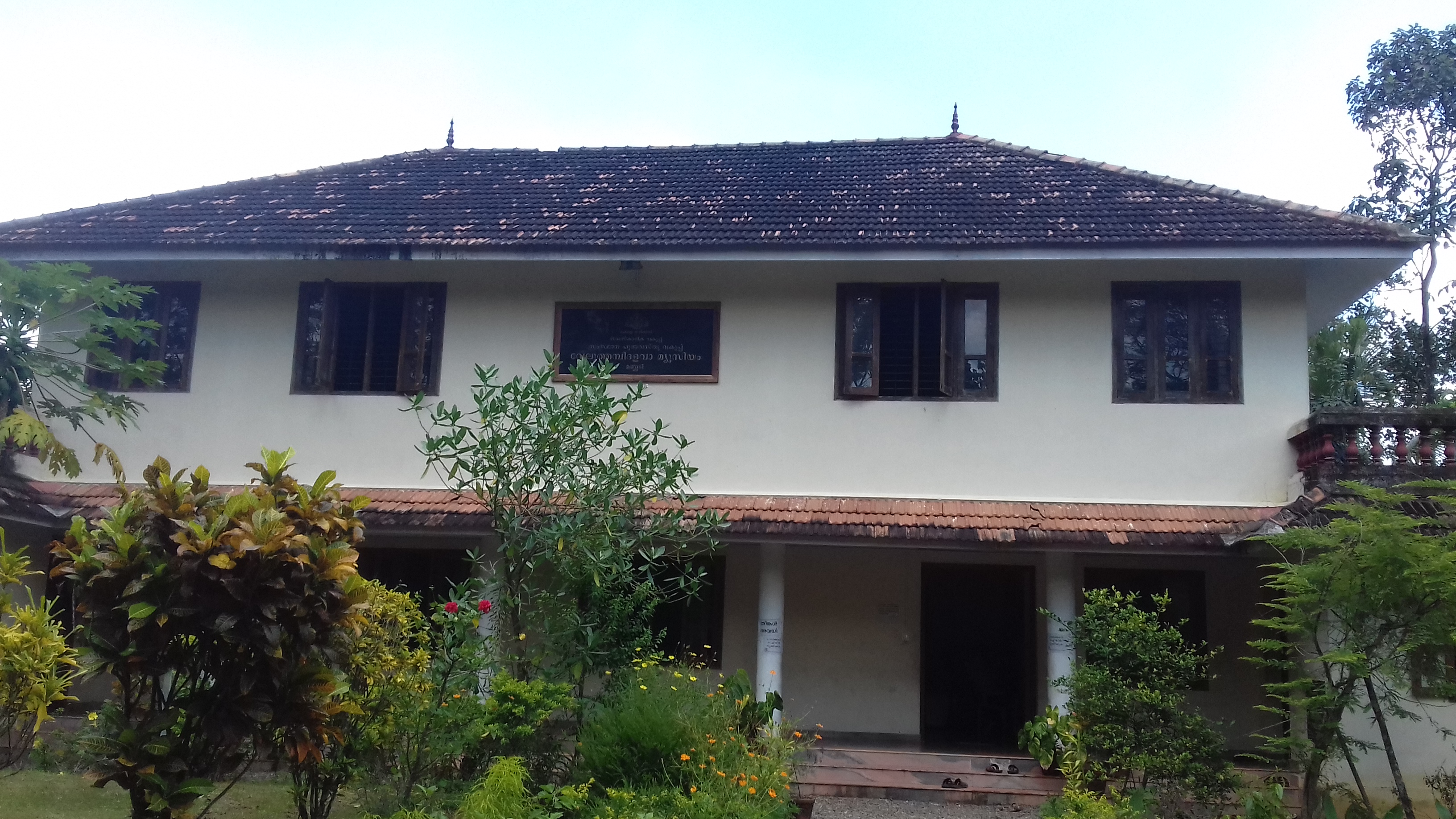 This is image of museum taken by me.